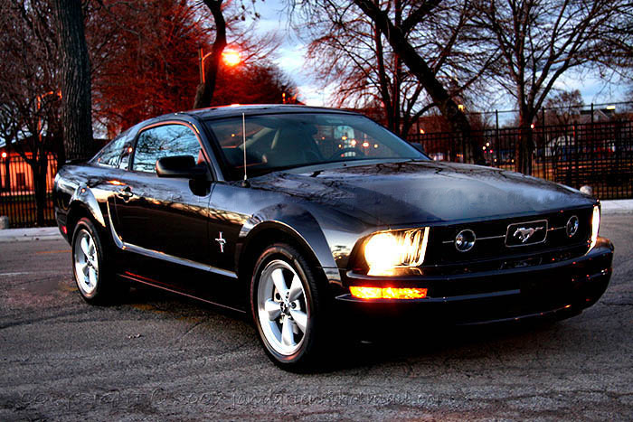 Photograph of a Ford Mustang V6.